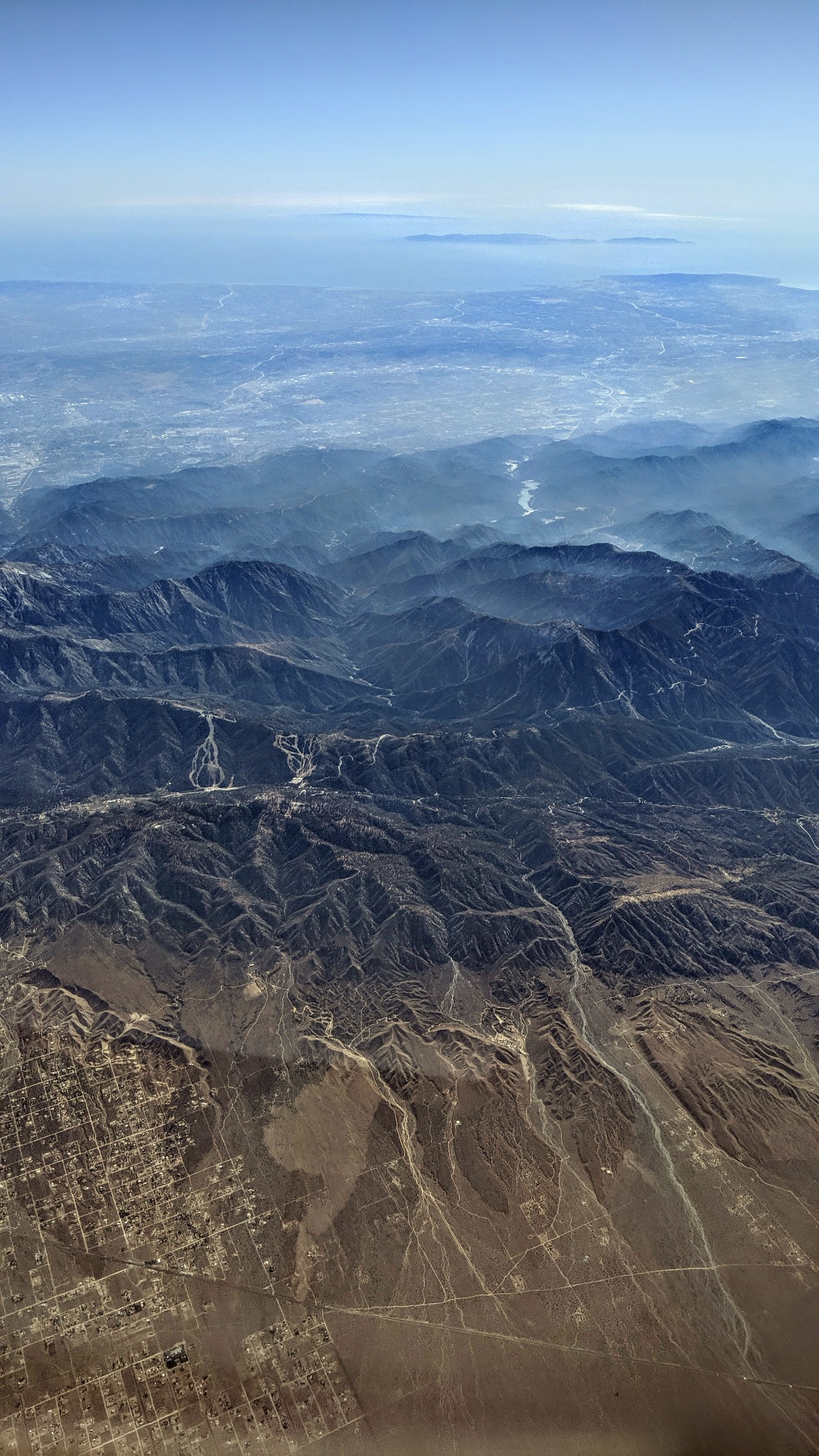 Aerial view from the north of the San Gabriel Mountains showing Mescal Creek Road (right foreground, running to center), Mount Baden-Powell (above center, slightly right of center), and Mountain High Resort (ski area left of center). Behind Mount Baden-Powell, the San Gabriel and Morris reservoirs are visible, then the Los Angeles Basin, and the Palos Verdes peninsula and Santa Catalina Island in the far distance.